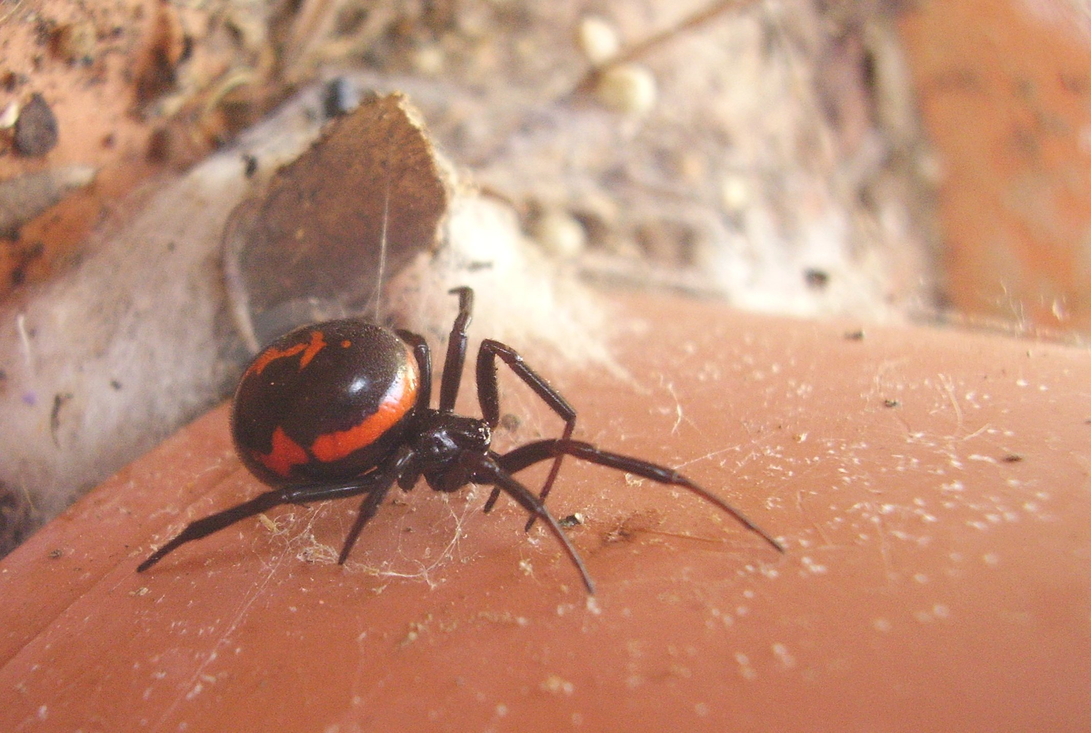 A "False widow spider", Steatoda paykulliana, in Karkur, Israel.